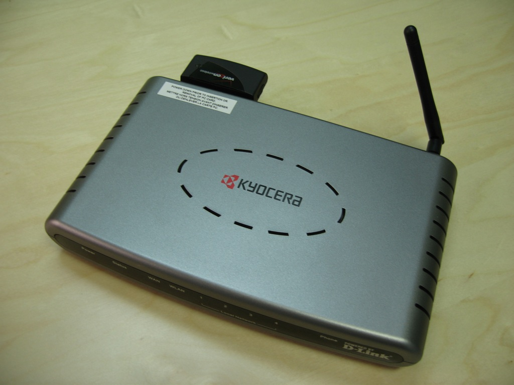 Our new Kyocera EVDO router -- for those long road trips where we all sit around and tinker with our laptops, cell phones, Ambient devices, etc. The device is nifty enough to come with a 12V cigarette lighter power supply (of course, all of us do have 110 VAC outlets in our cars...)